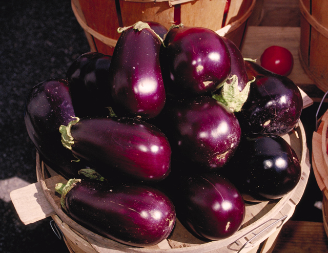 Aubergines from